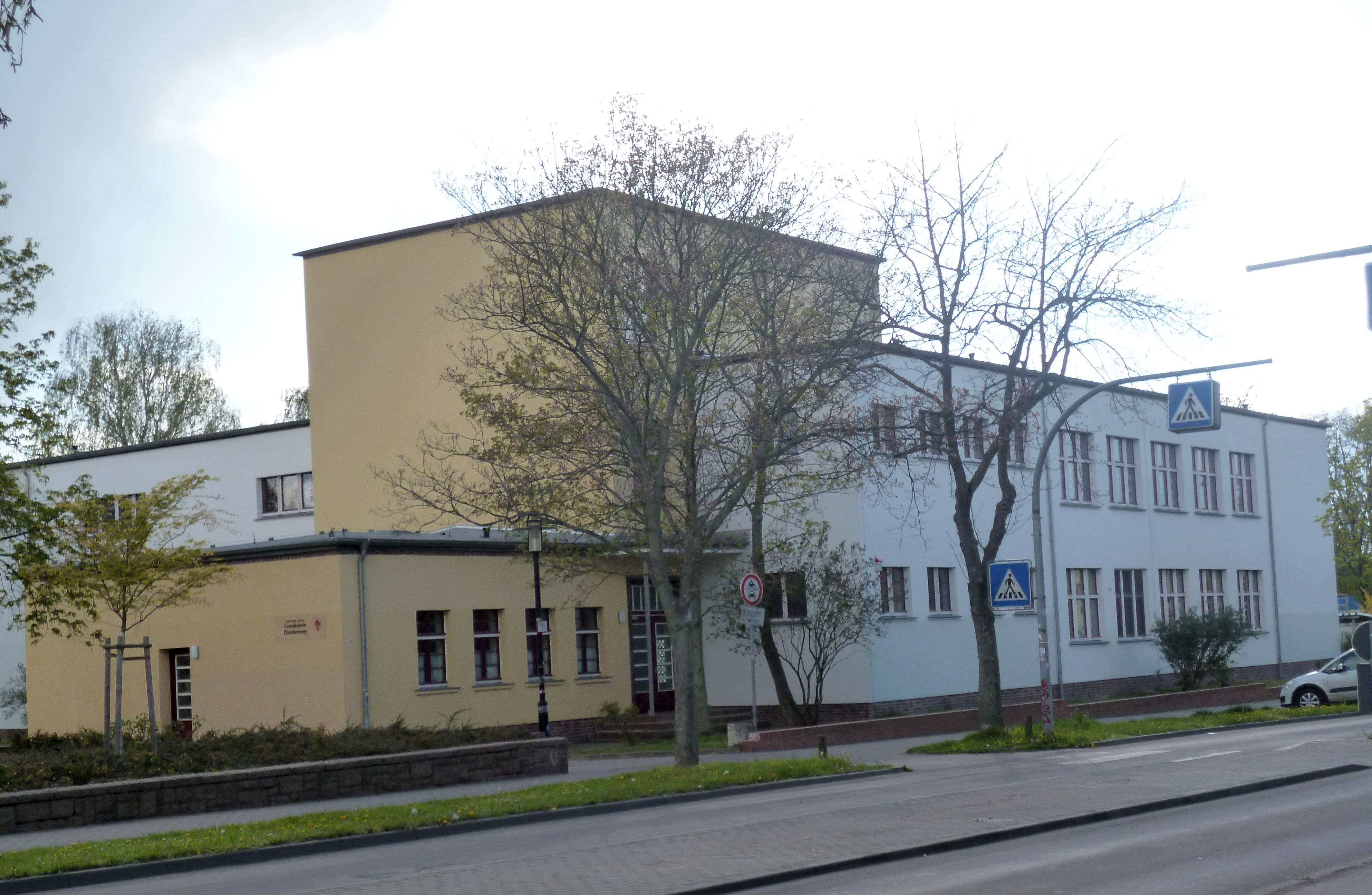 School Diesterwegschule I, today elementary school Diesterweg, built in 1929/1930, architect: Wolfgang Bornemann, Diesterwegstrasse No. 38, Halle (Saale)